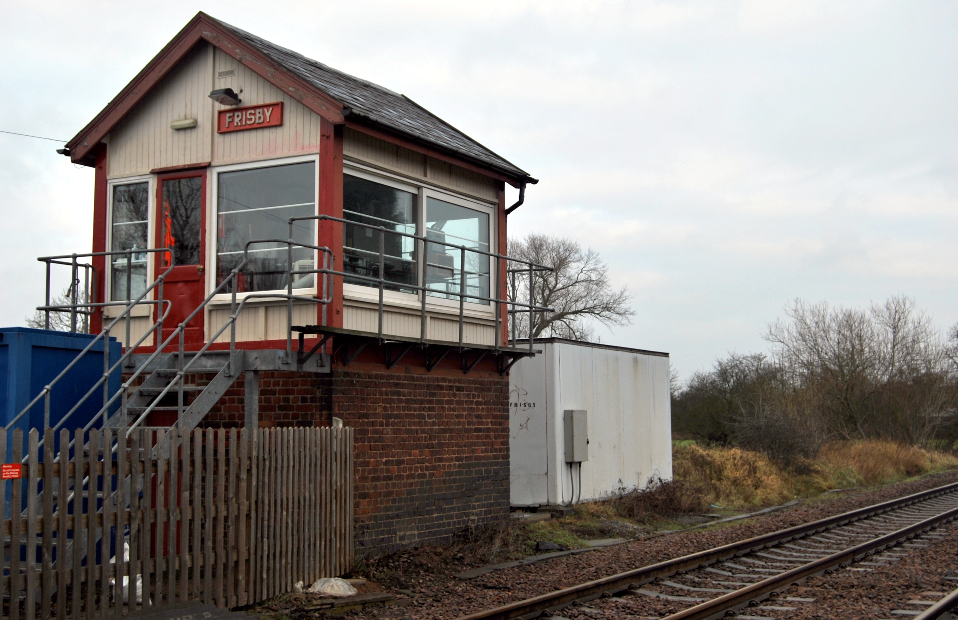 Frisby on the Wreake railway signal box.